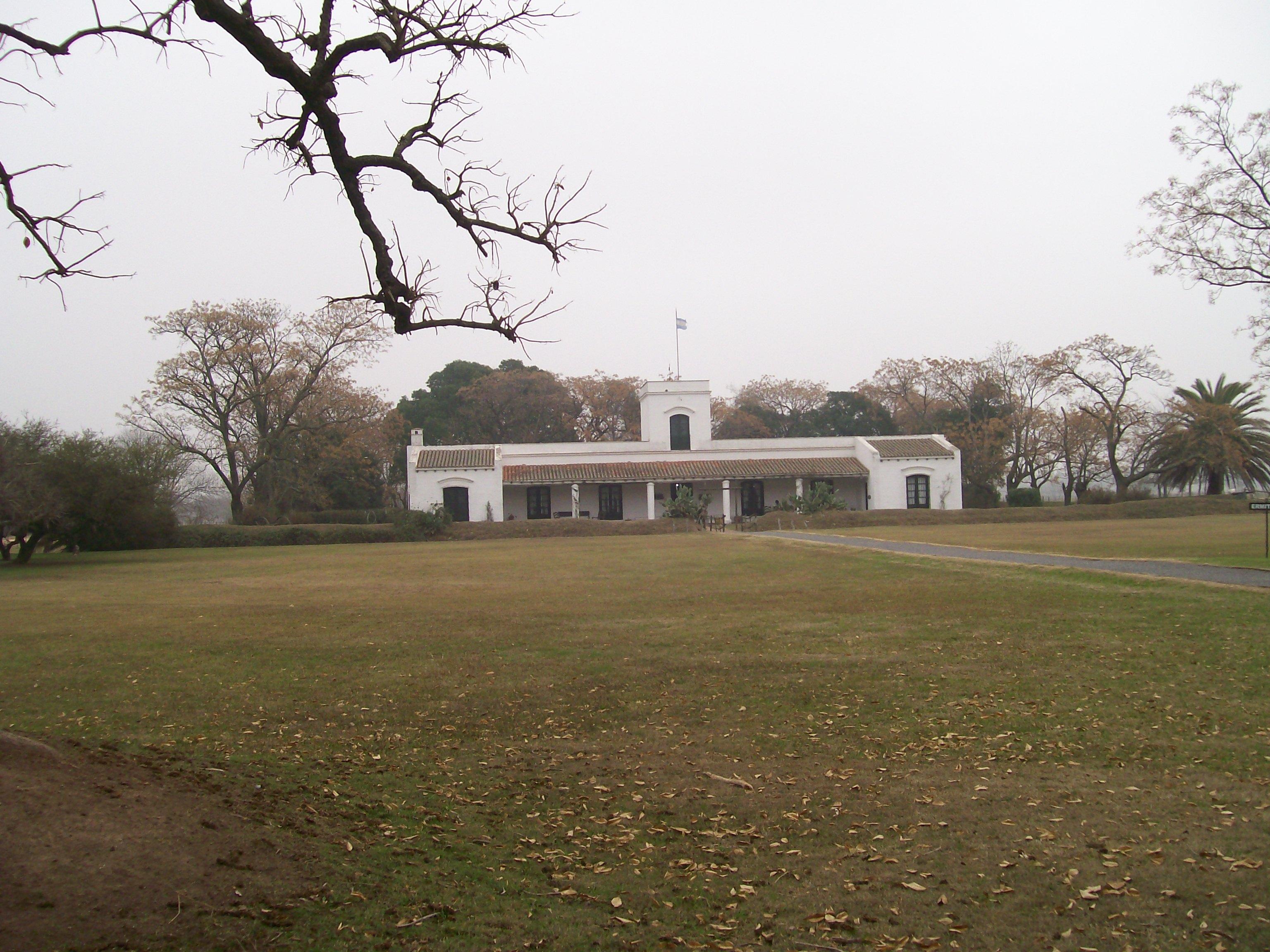 Ricardo Guiraldes Museum